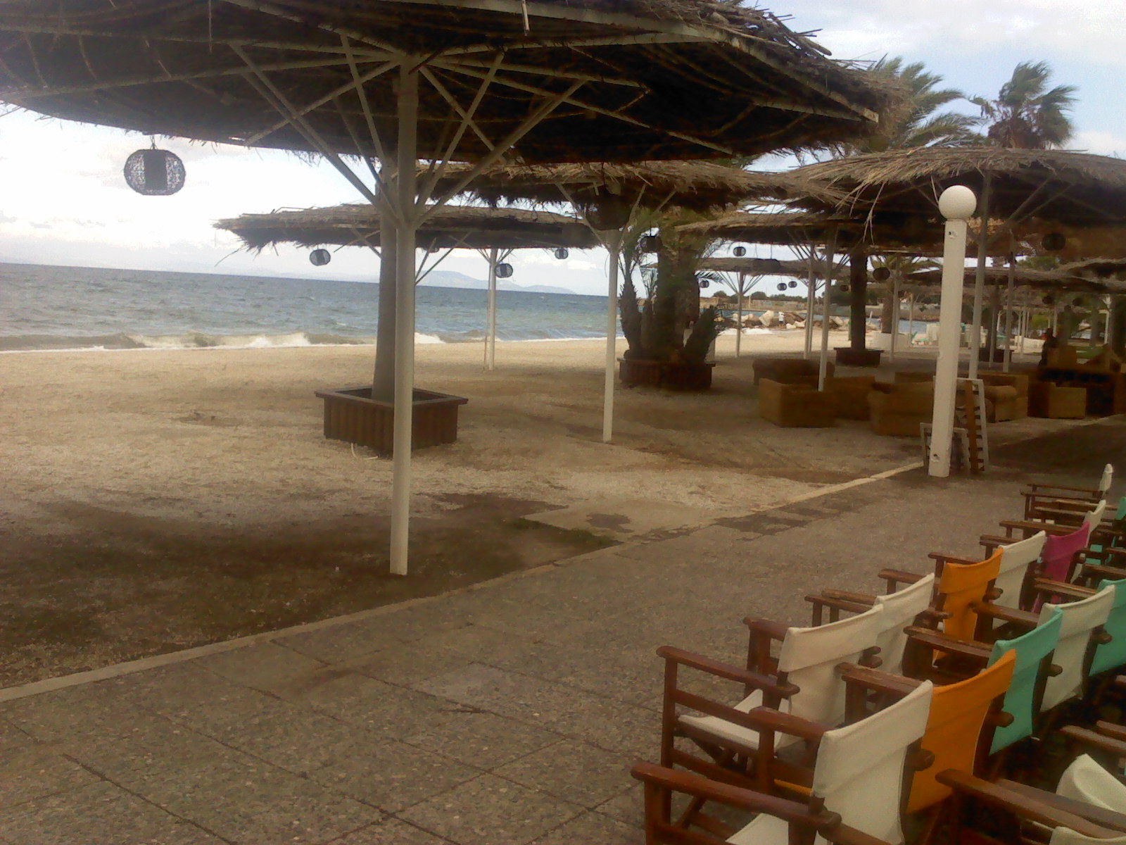 Seaside Zoumperi